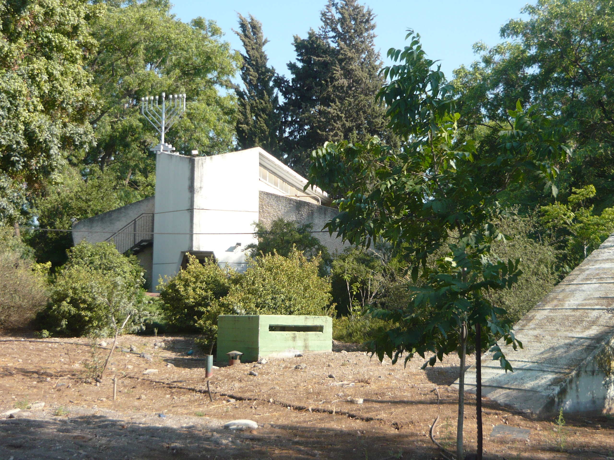 hayogev synagogue בית הכנסת במושב היוגב